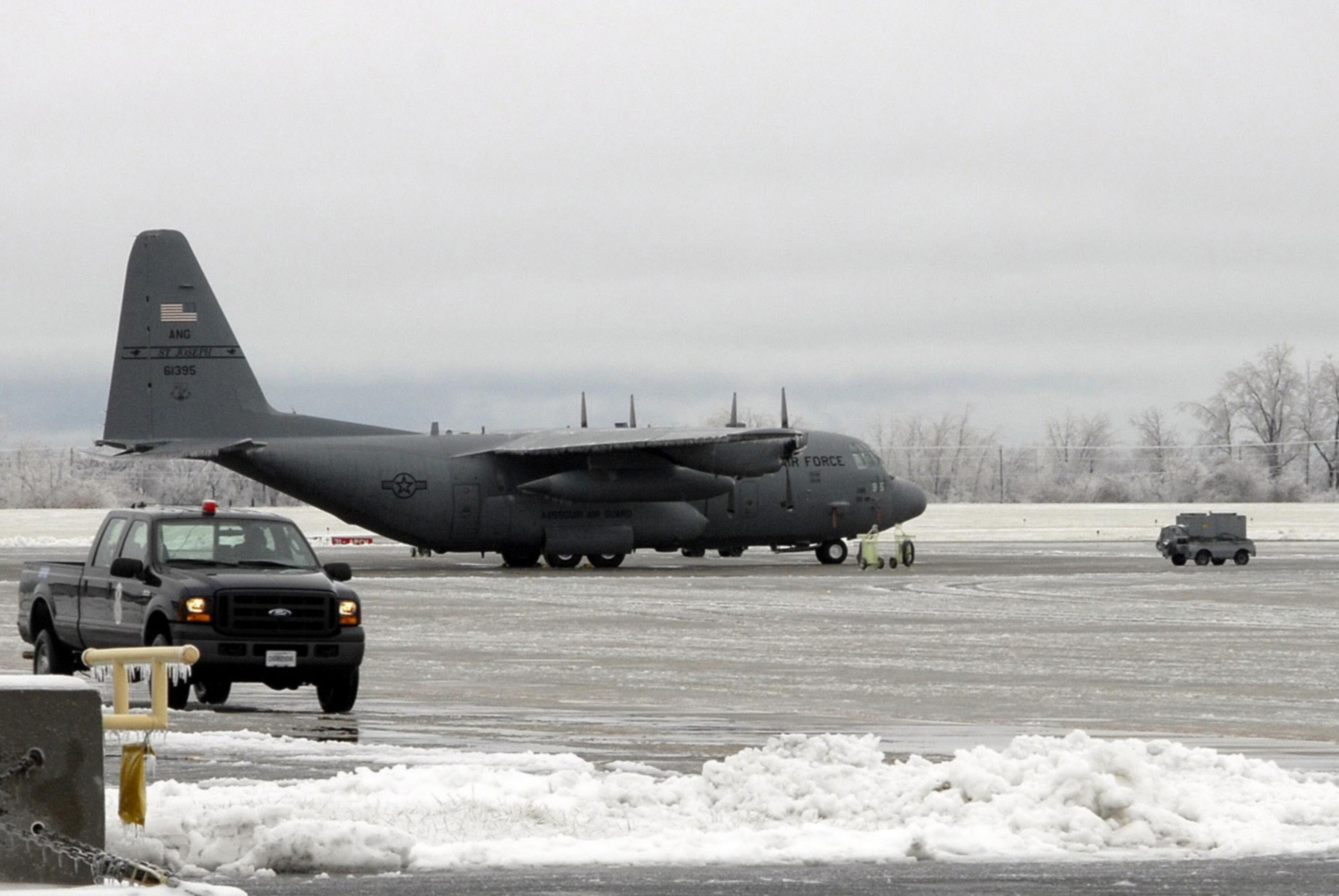 A U.S. Air Force Lockheed C-130H Hercules (s/n 86-1395) from the 180th Airlift Squadron, 139th Airlift Wing, at Saint Joseph, Missouri (USA), on 12 December 2007 following a blistering winter storm.